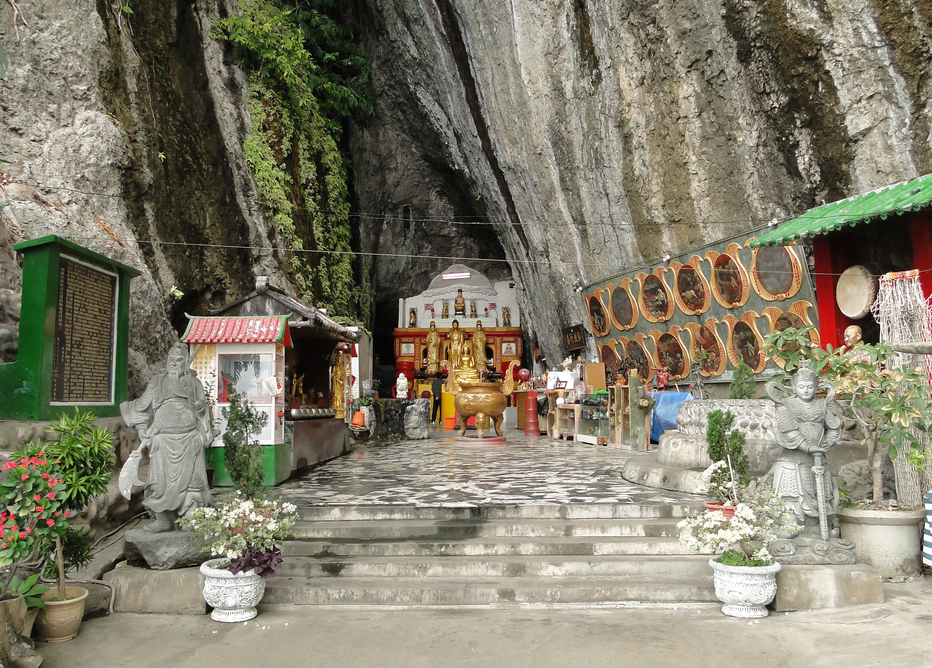 One of the Bashian Caves, Hualien County, Taiwan